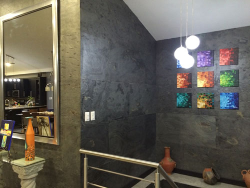 Wall application of flexible stone veneer